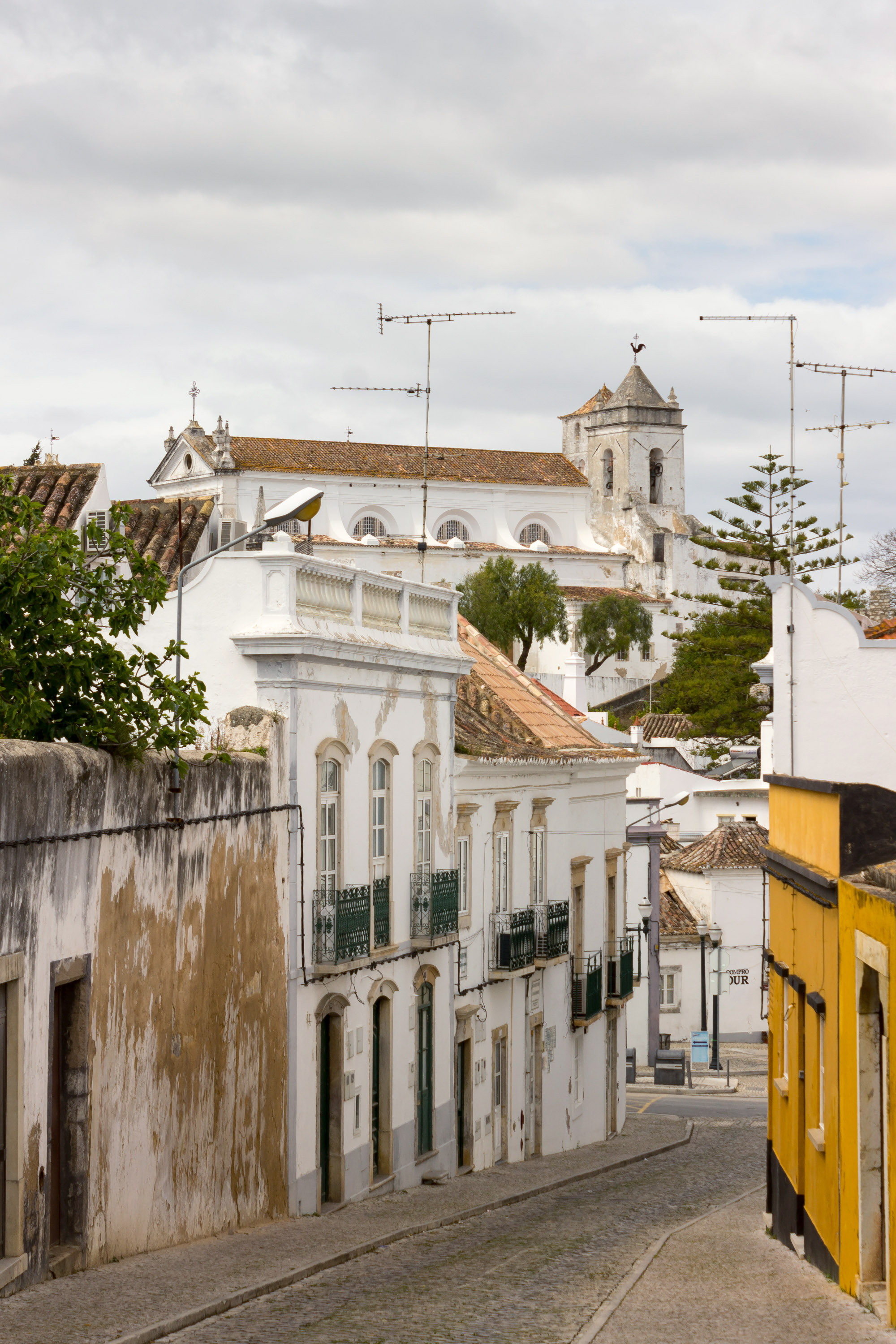 A central street in Tavira